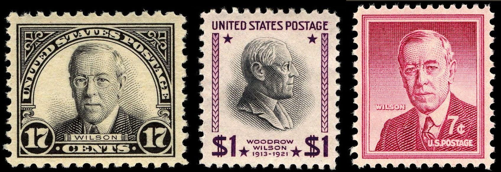 Composite image of three postage stamps each depicting Woodrow Wilson